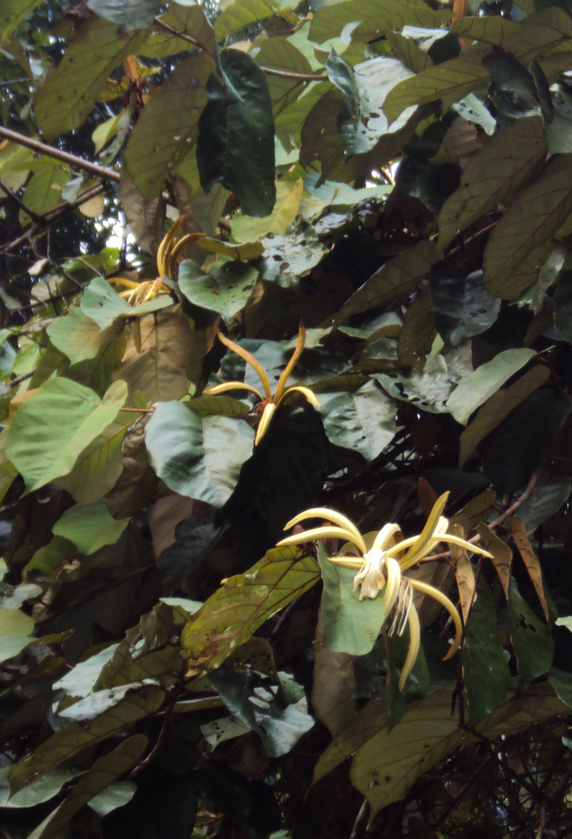 Pterospermum diversifolium